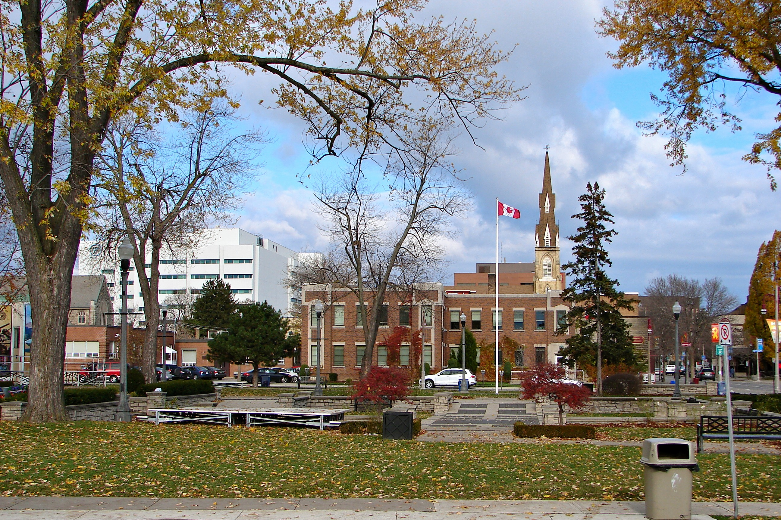 Downtown Oshawa, Ontario, Canada